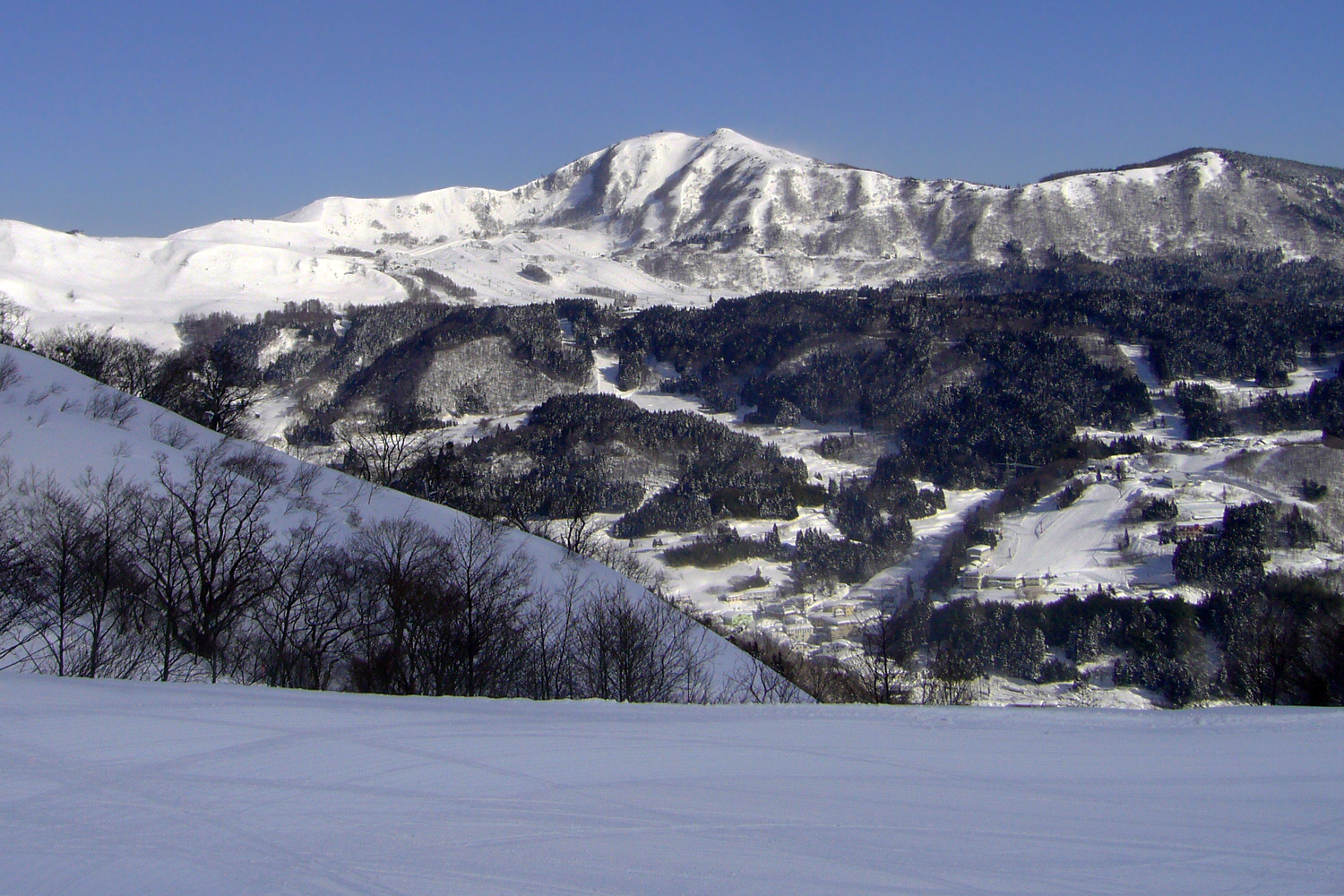 Mt.Hachibuseyama, Hyonosen International Ski resort in Yabu, Hyogo prefecture, Japan